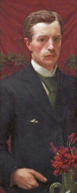 Self portrait oil on canvas 35.5 x 15.7 cm circa 1890